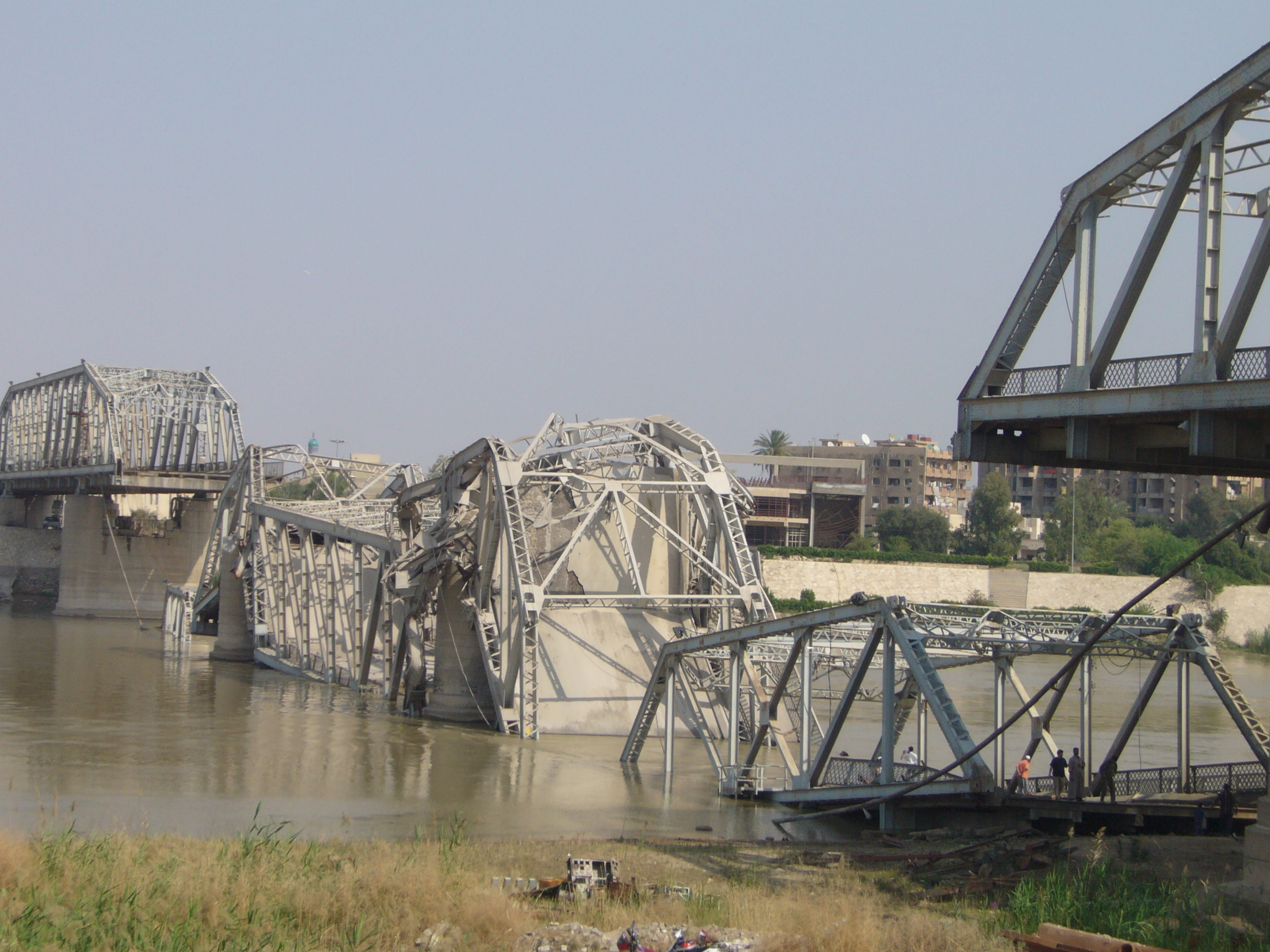 Al-Sarafiya bridge 13th April 2007 3/4. destroyed as a result of an explosion caused by a car bomb